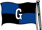 Logo of defunct association football club SC Germania Hamburg (aka. Germania 1887 - 1887 to 1919).